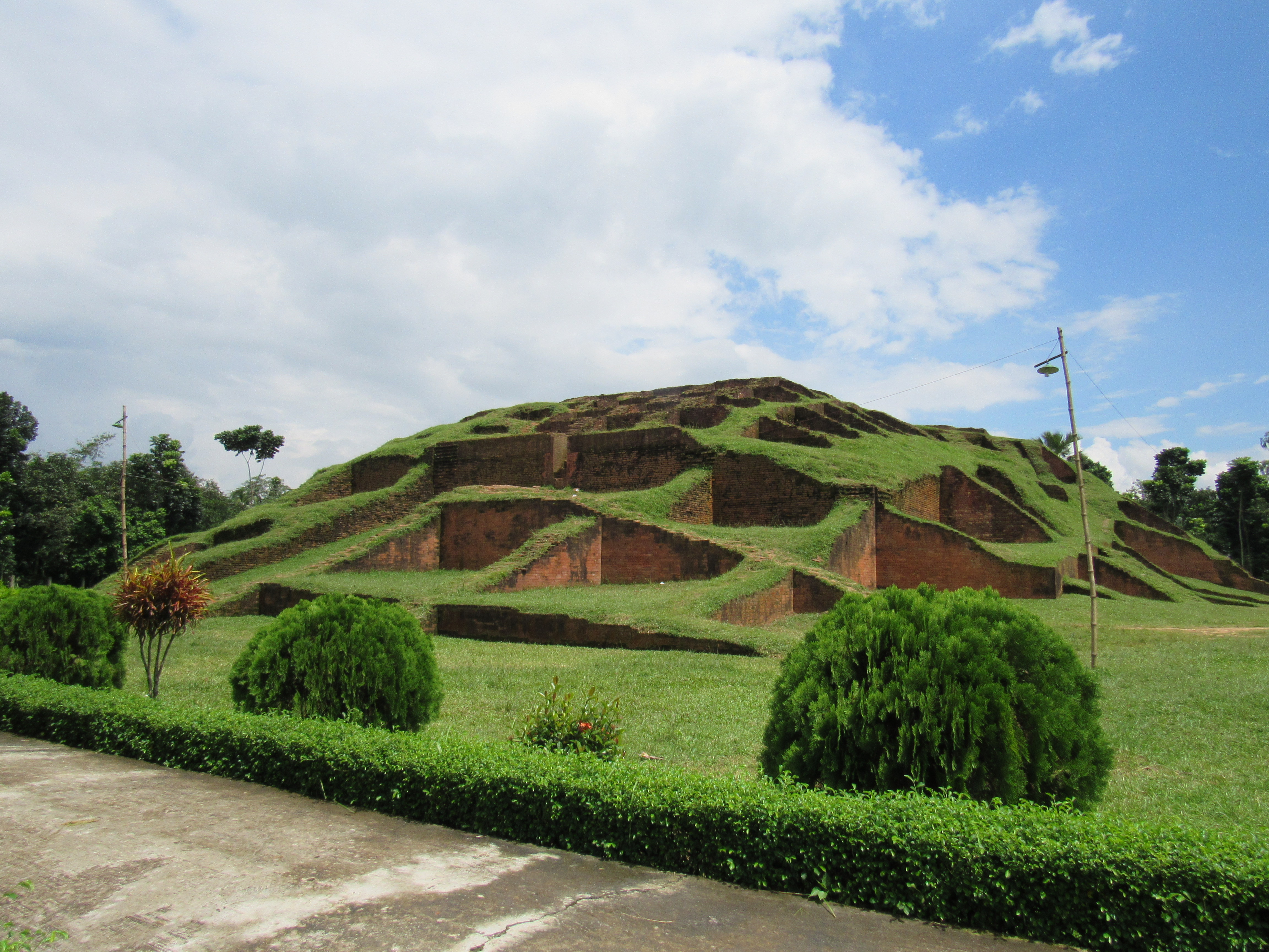 Gokul Medh, Bogra, September 2016